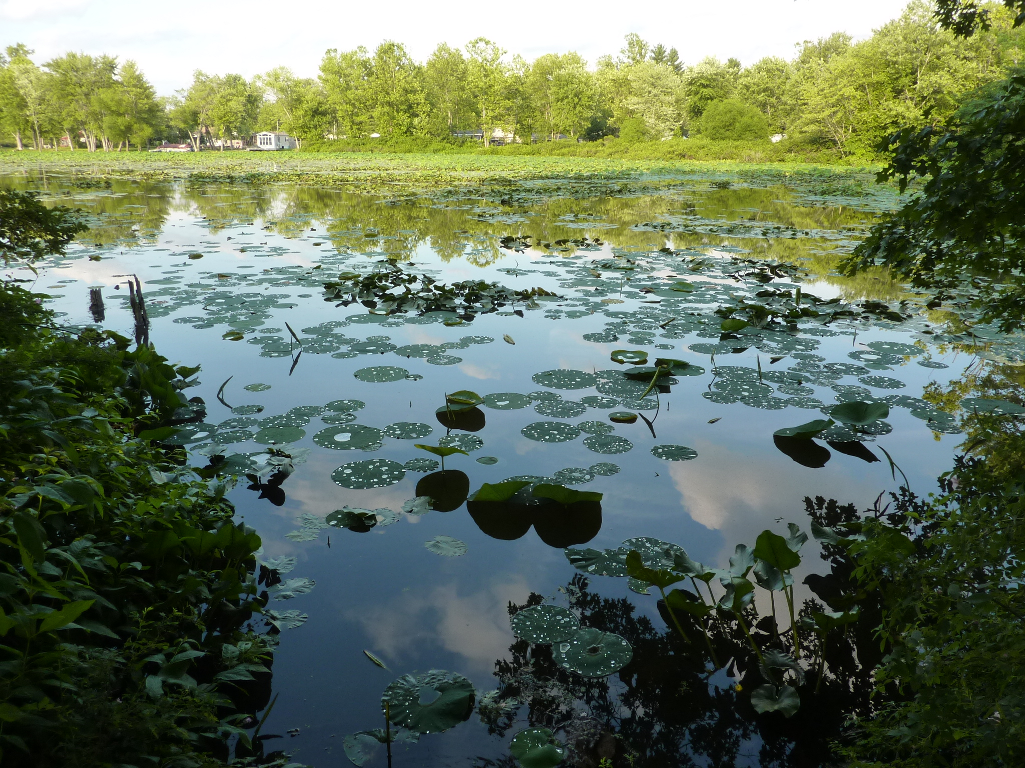 Little Africa Wildlife Viewing Area at the eastern tip of Lake Lemon, east of Bloomington, Indiana. Plenty of lotuses can be seen there.